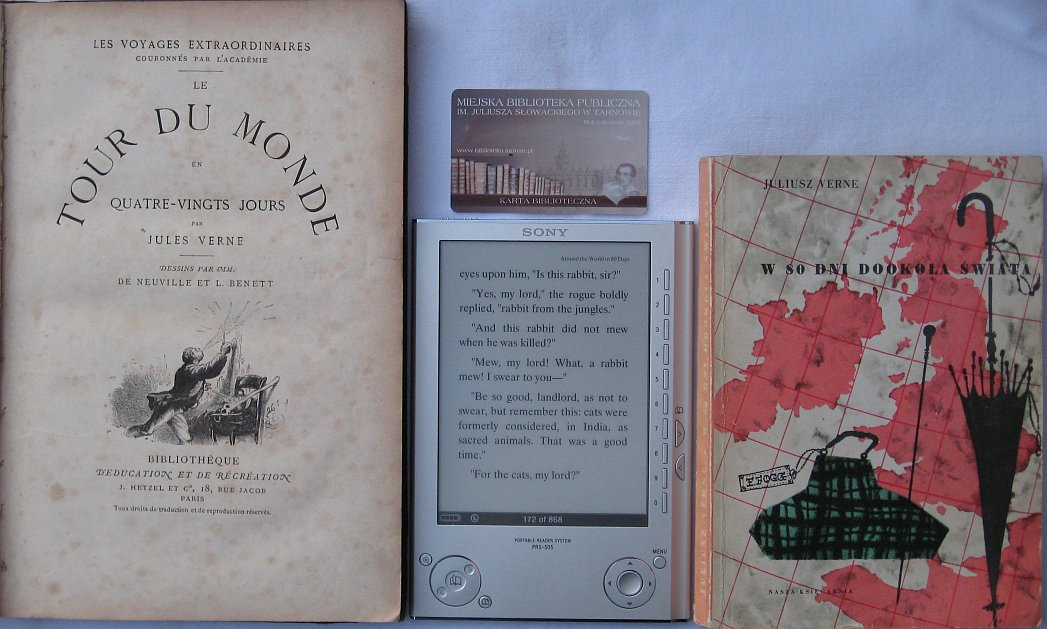 Around the World in 80 Days in French (Hetzel), English (Sony Reader PSR 505), and Polish (Nasza Ksiegarnia).